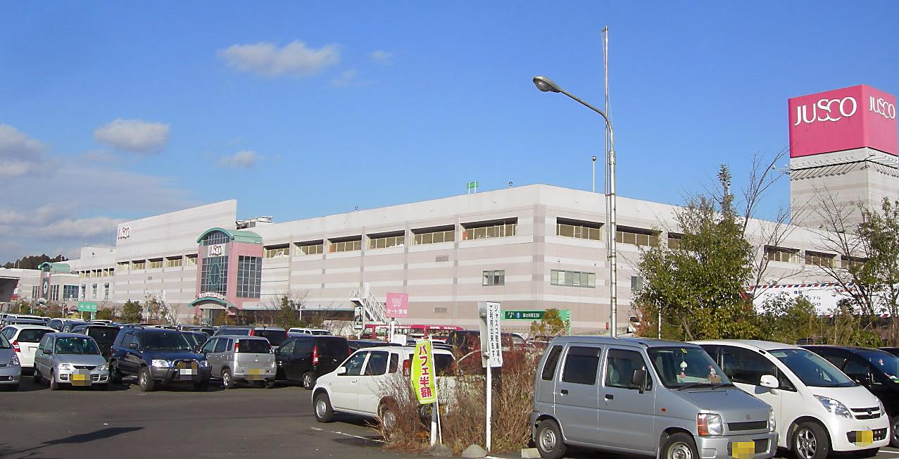 AEON Rifu shopping center